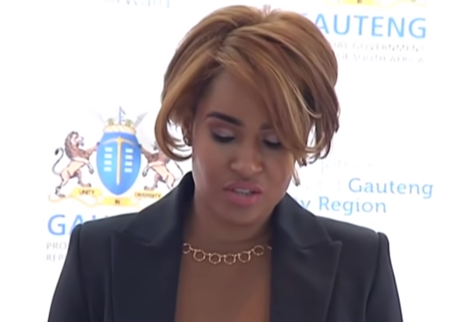 Caption from YouTube: "Provincial leaders in the Gauteng are being sworn-in on Thursday at Emoyeni Conference Centre." (04:28)